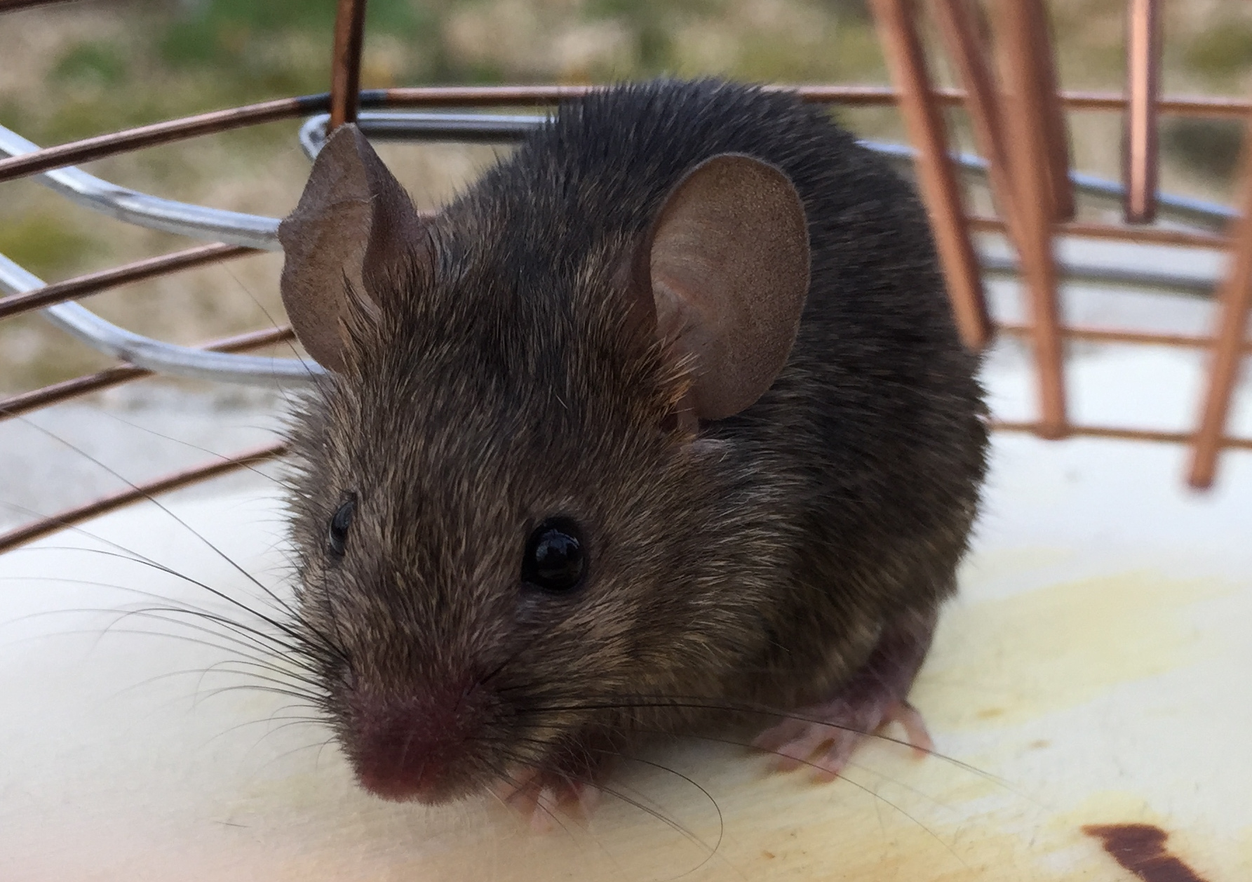 Trapped house mouse